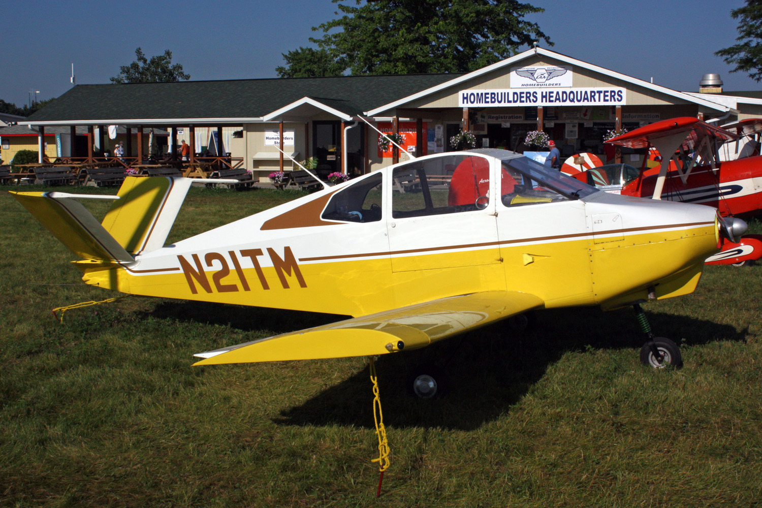 Davis DA-2 Oshkosh 2008